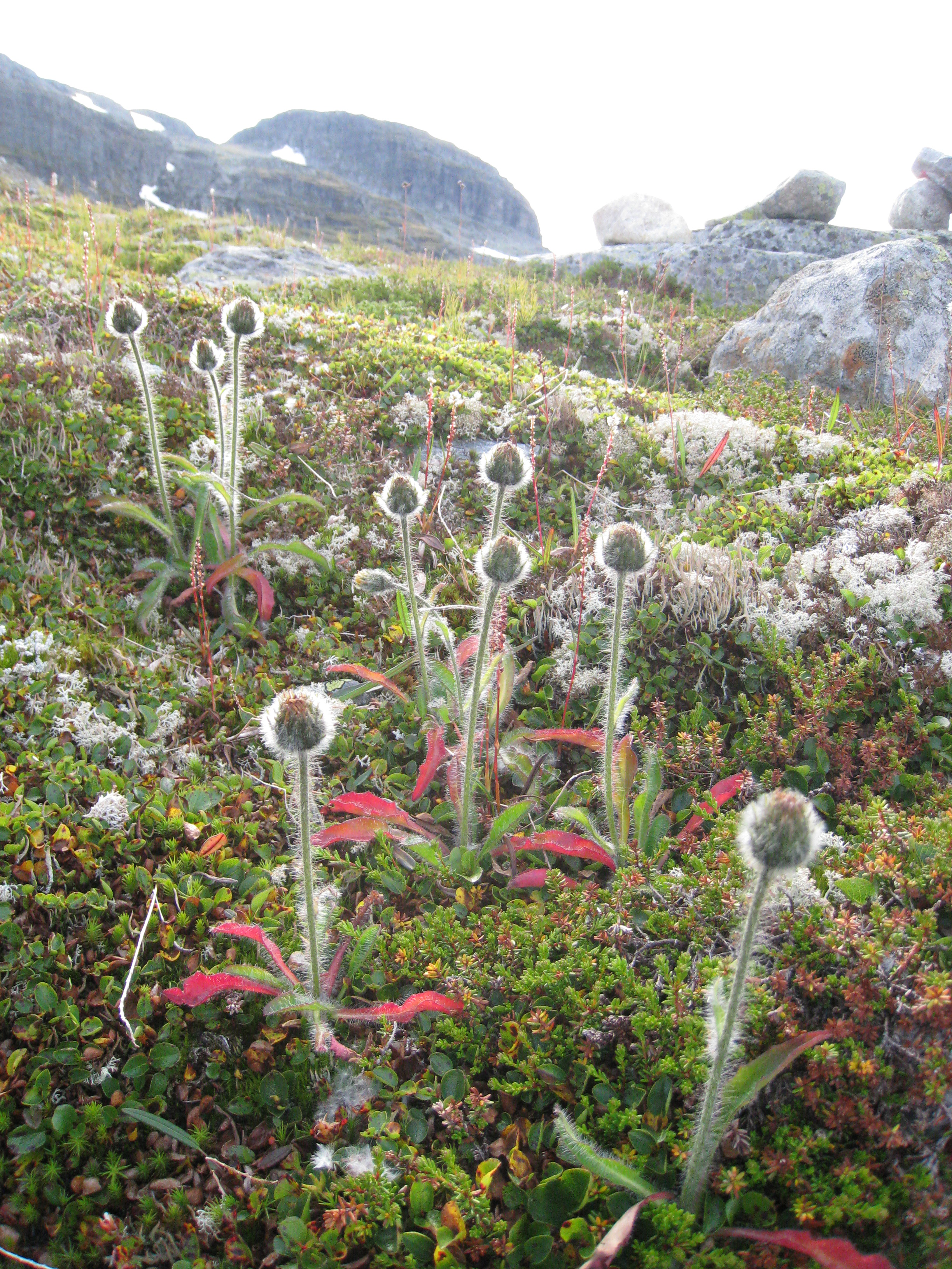 Hieracium alpinum